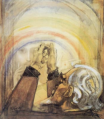 Het gebed / The prayer (Self portrait) (1927), Stedelijk Museum, Amsterdam, 1927, Crayon and watercolour on paper, 65.8 x 57.7 cm